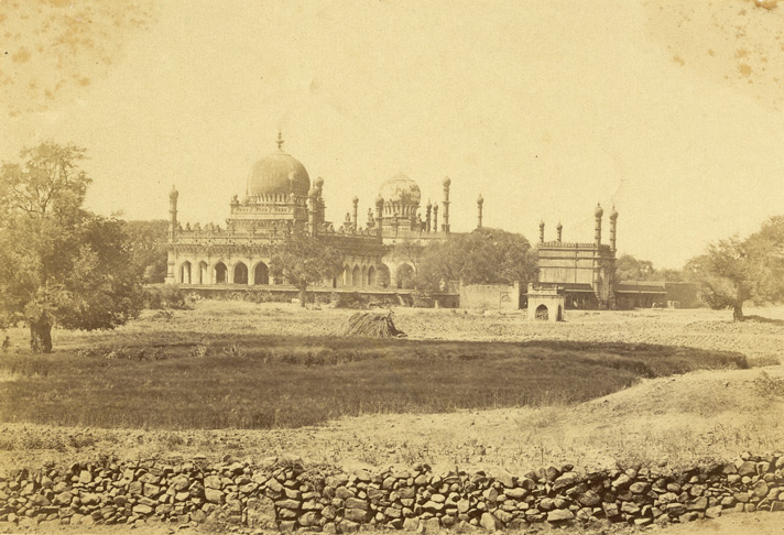 Ibrahim Rozah Tomb.